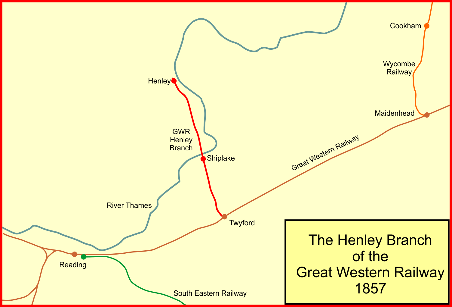 System map of the Henley (on-Thames) branch railway, England, in 1857